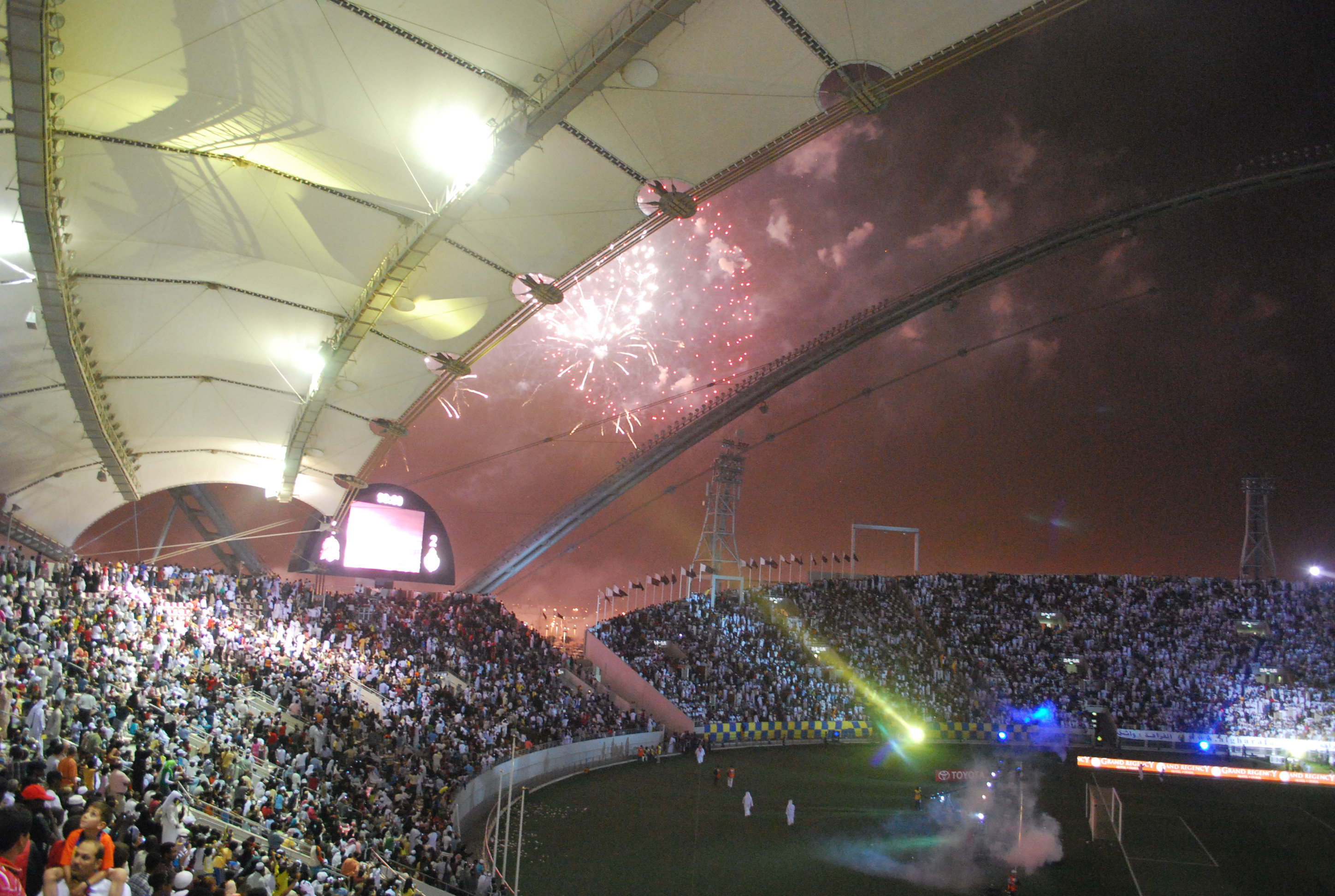 Khalifa International Stadium, during the final game of the 2009 Emir of Qatar Cup.